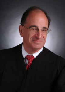 Jack Zouhary, United States Federal Judge.